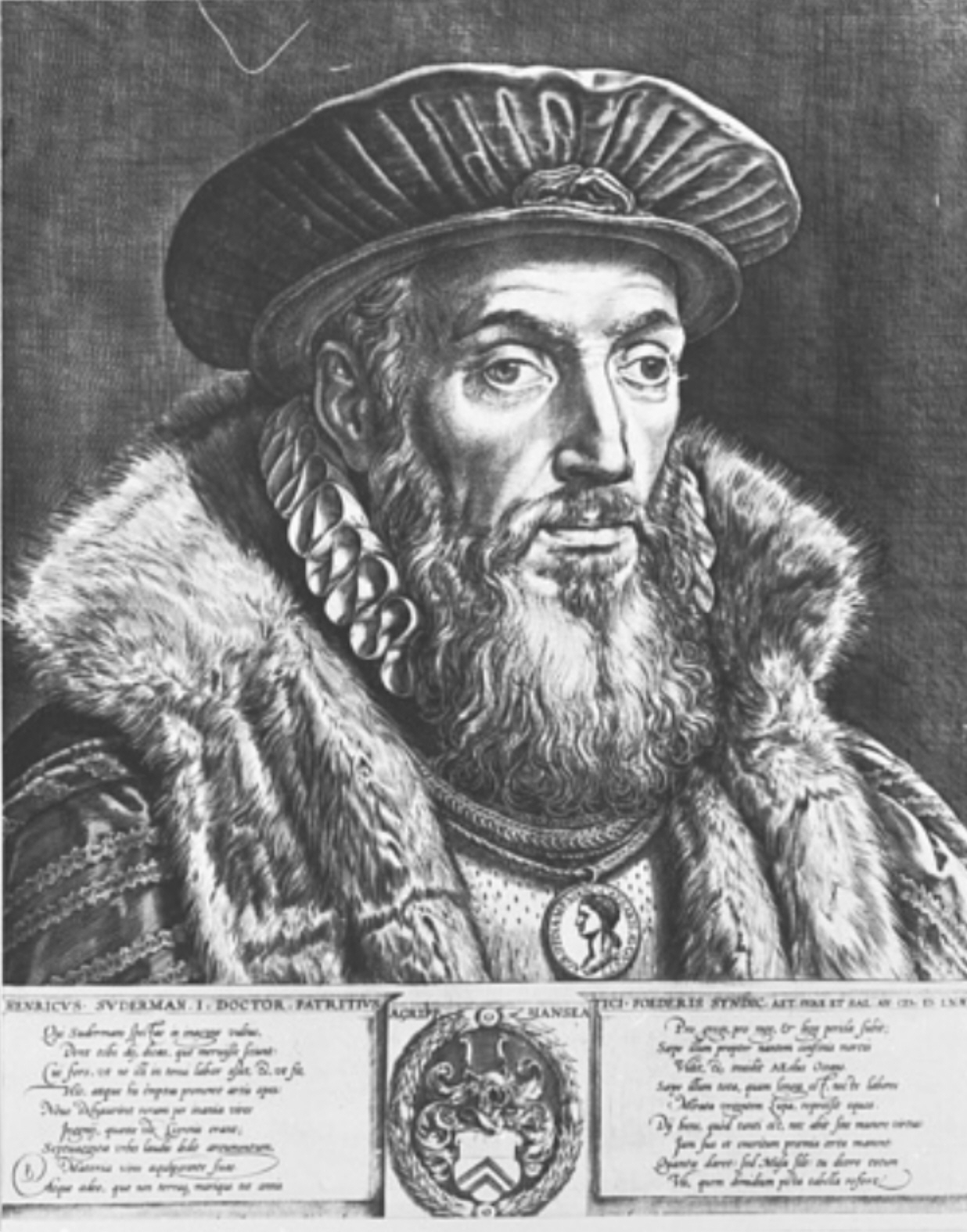 Heinrich Sudermann (* 1520; † 1591), German jurist and First Syndicus of the Hanseatic League